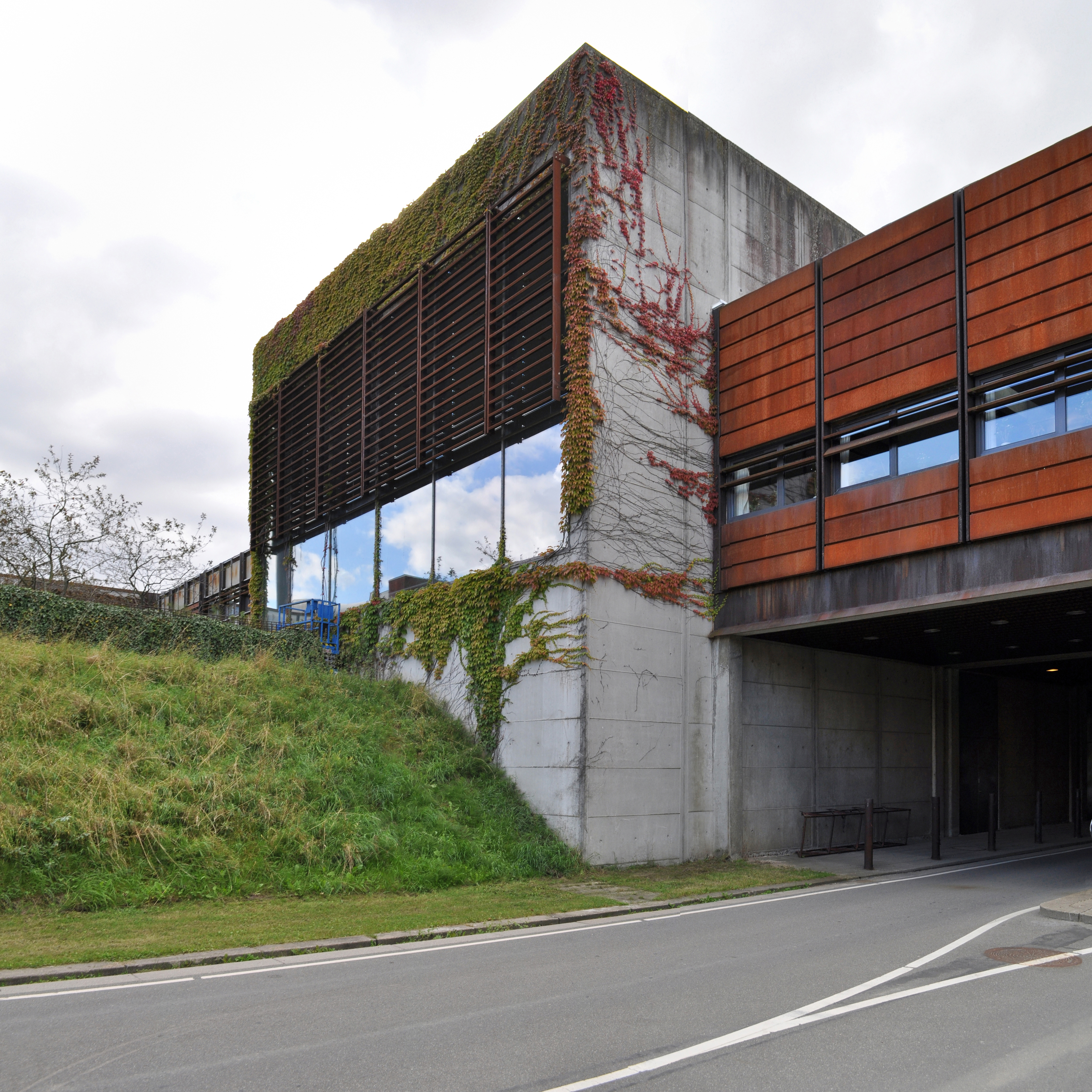 Odense university, syddansk universitet, 1966-1976. Architects: Knud Holscher (b.1930) with KHR.